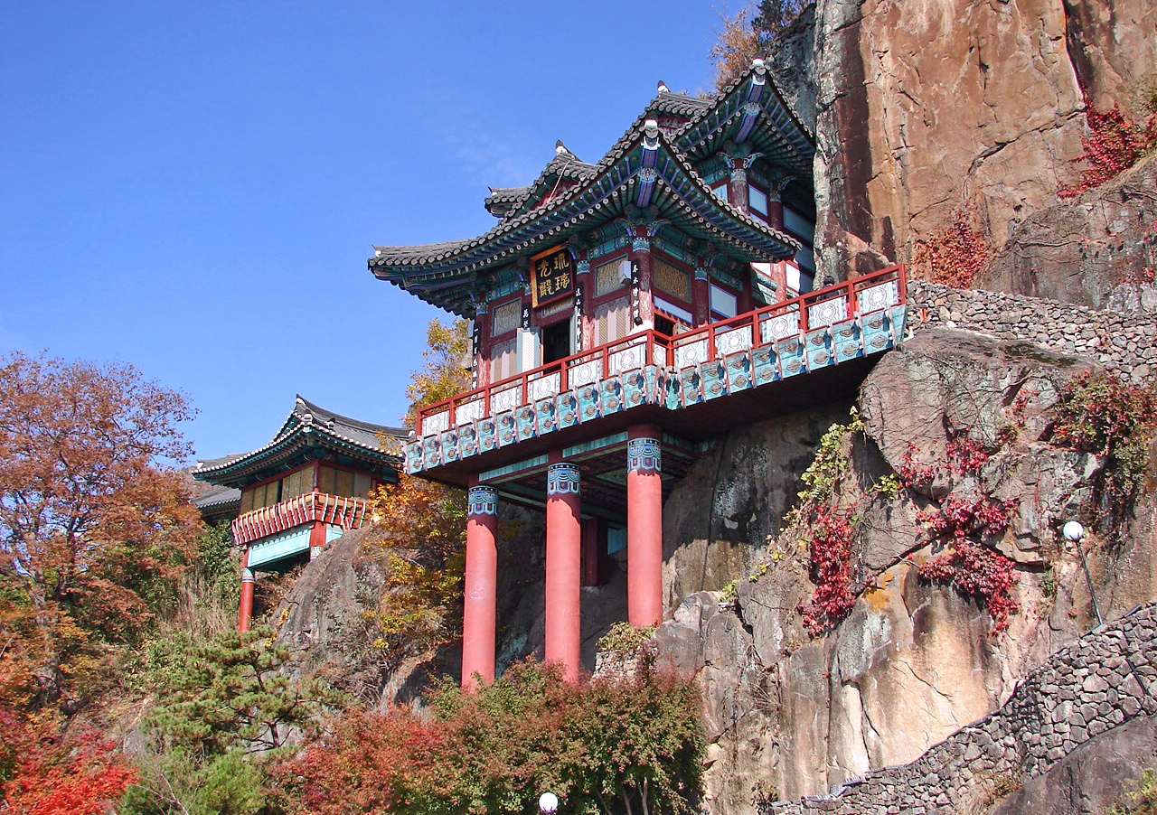 Main Hall Saseongam (hermitage) is said to have been built by Priest Yeongi Chosa in 544. Named Saseongam, or the Hermitage of Four Saints, after four high priests: Yongi Chosa, Wonhyo Taesa, Toseon Kuksa, and Chinkak Seonsa, that lived and worked here at some time. Saseong Hermitage is Jeollanamdo Cultural Property Material #33.